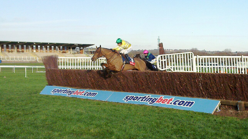 Cois Farraig jumps the last in front at Newbury November 2010